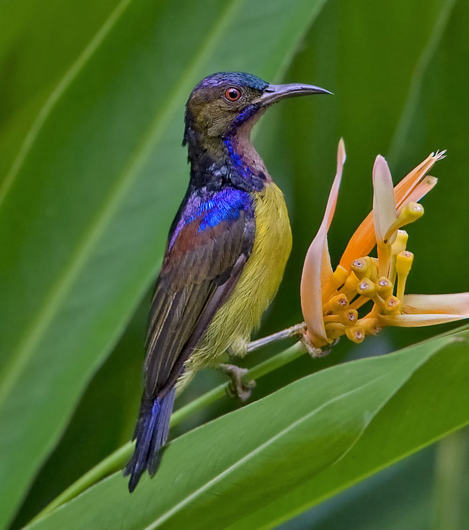 Brown-throated Sunbird - photo taken in Singapore